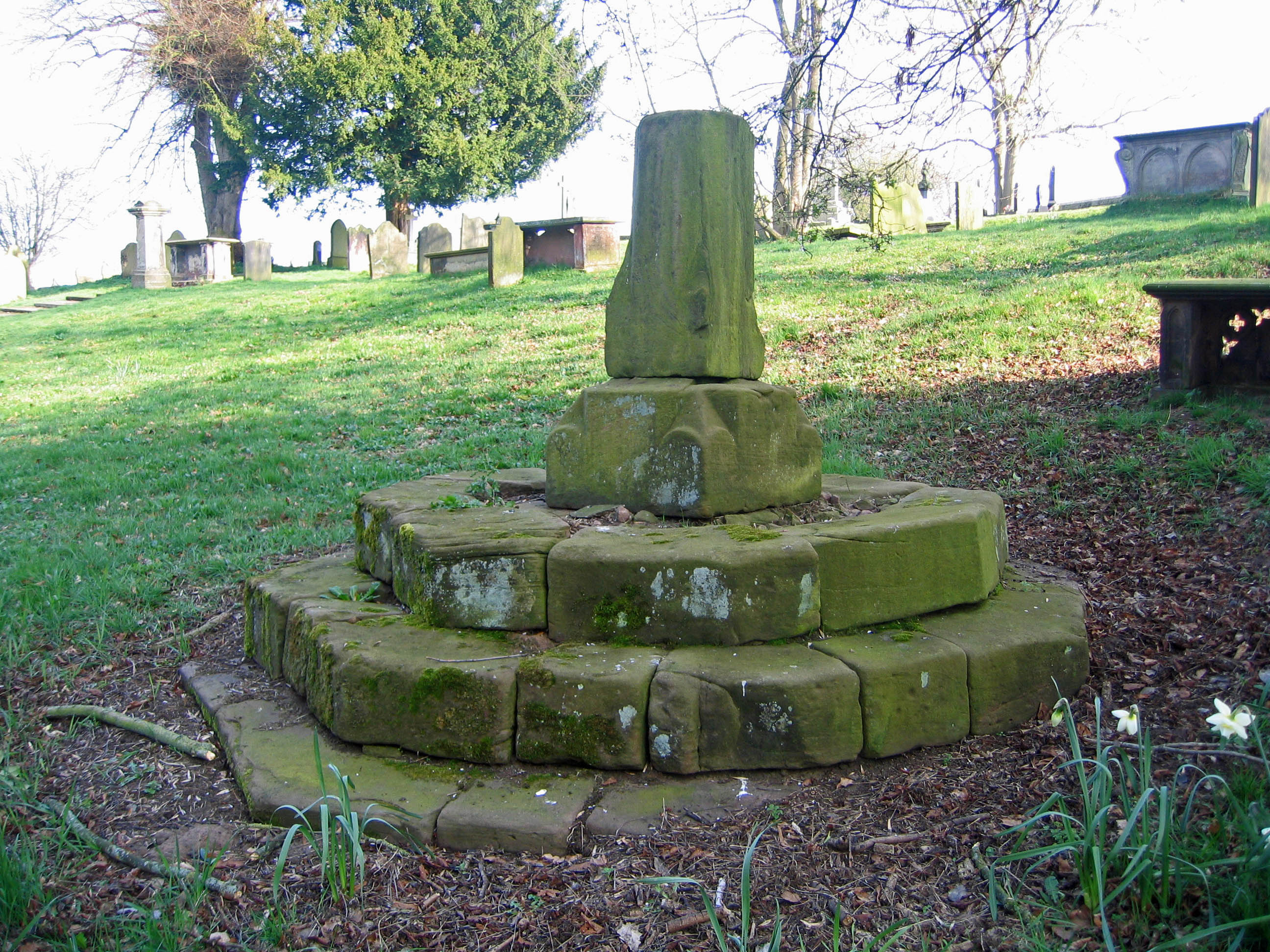 Base and broken shaft of churchyard cross in St Chad's parish churchyard, Over, Cheshire